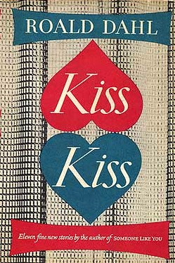 Roald Dahl: Kiss Kiss, New York 1960 - book cover of the first edition. Kiss Kiss was Dahl's third collection of short stories.